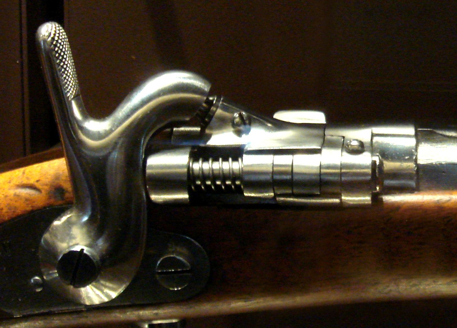 French_Tabatiere_mechanism_1867_detail